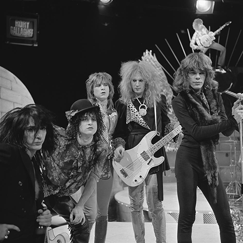 New York Dolls on AVRO's TopPop (Dutch television show) in 1973